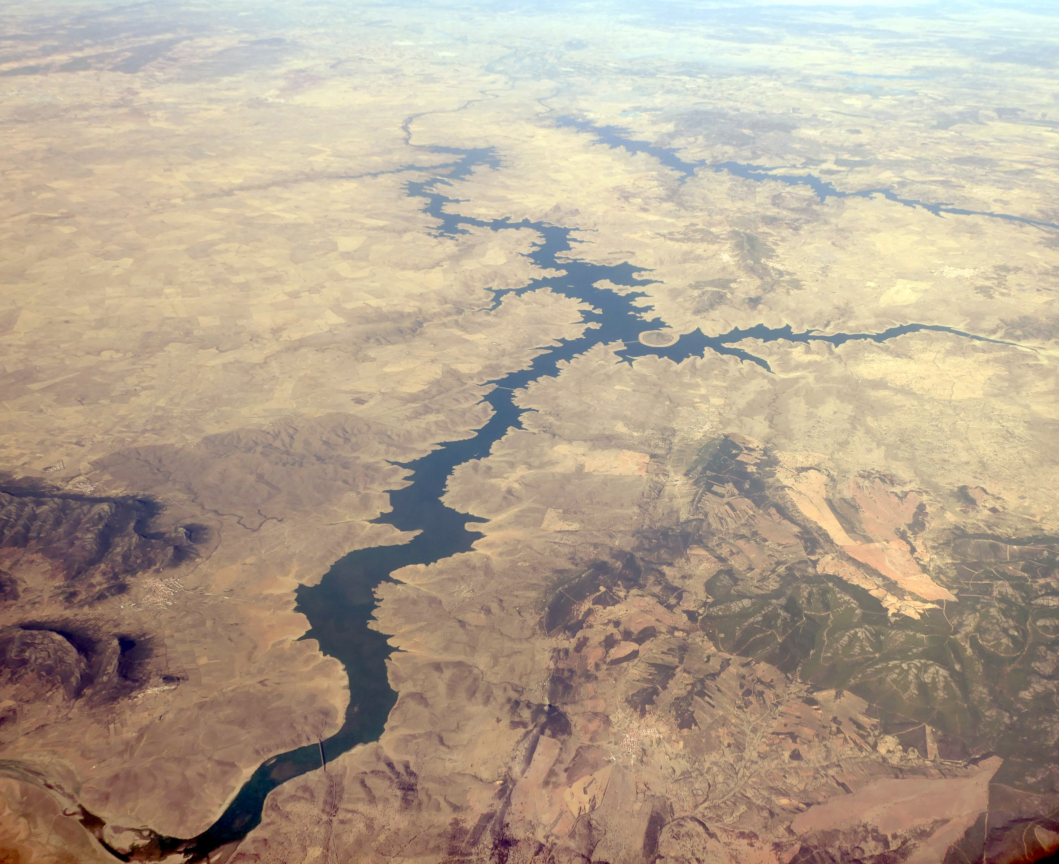 An aerial photo of La Serena reservoir in the province of Extremedura in Spain.